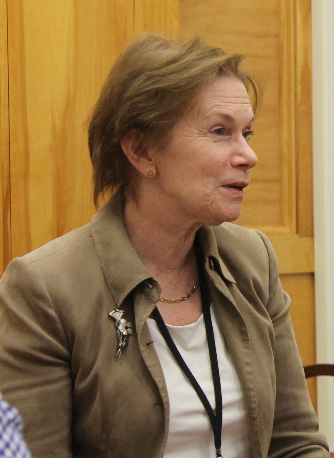 This is a photo of Donna Lynne speaking to a group of Governor's Office Interns.